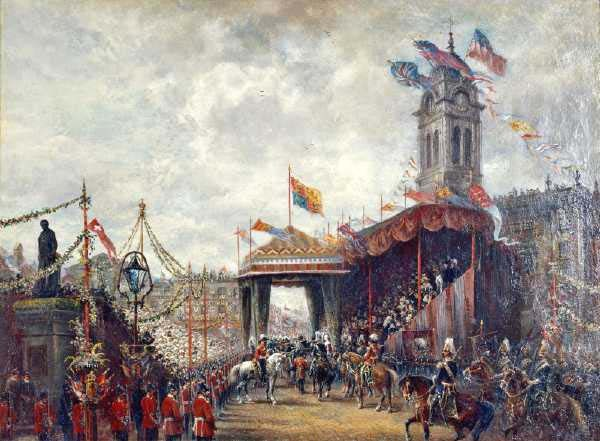 In 1891, Queen Victoria visited Derby to lay the foundation stone of the Derbyshire Royal Infirmary and to knight Sir Alfred Haslam.[2] The scene in the market place where hundreds of people, soldiers, horses and bunting was captured by Payne. This painting is now in Derby Museum and Art Gallery